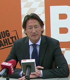 Josef Bucher(BZÖ party leader) during the BZÖ press conference on 22 February 2011 in Vienna.